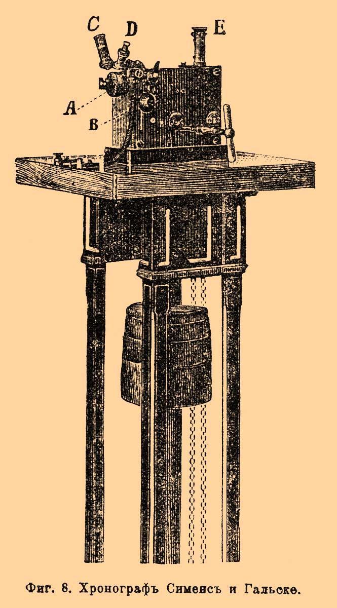 Illustration from Brockhaus and Efron Encyclopedic Dictionary (1890—1907)